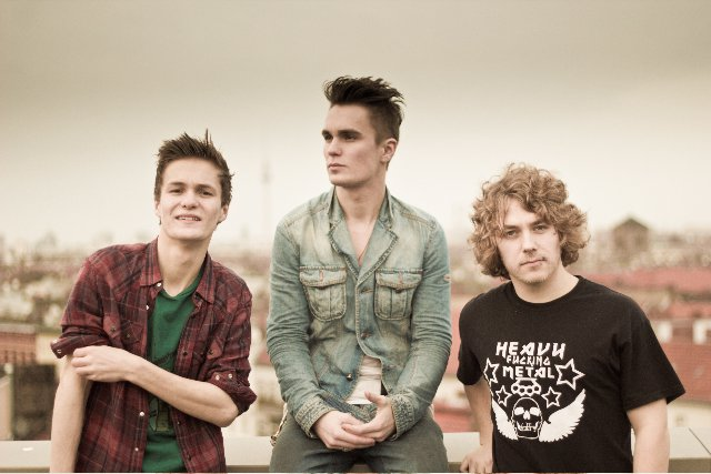 The Killerpilze (English/German for "Killer Mushrooms") is a German Pop-rock / pop-punk band from Dillingen a.d. Donau, Germany.